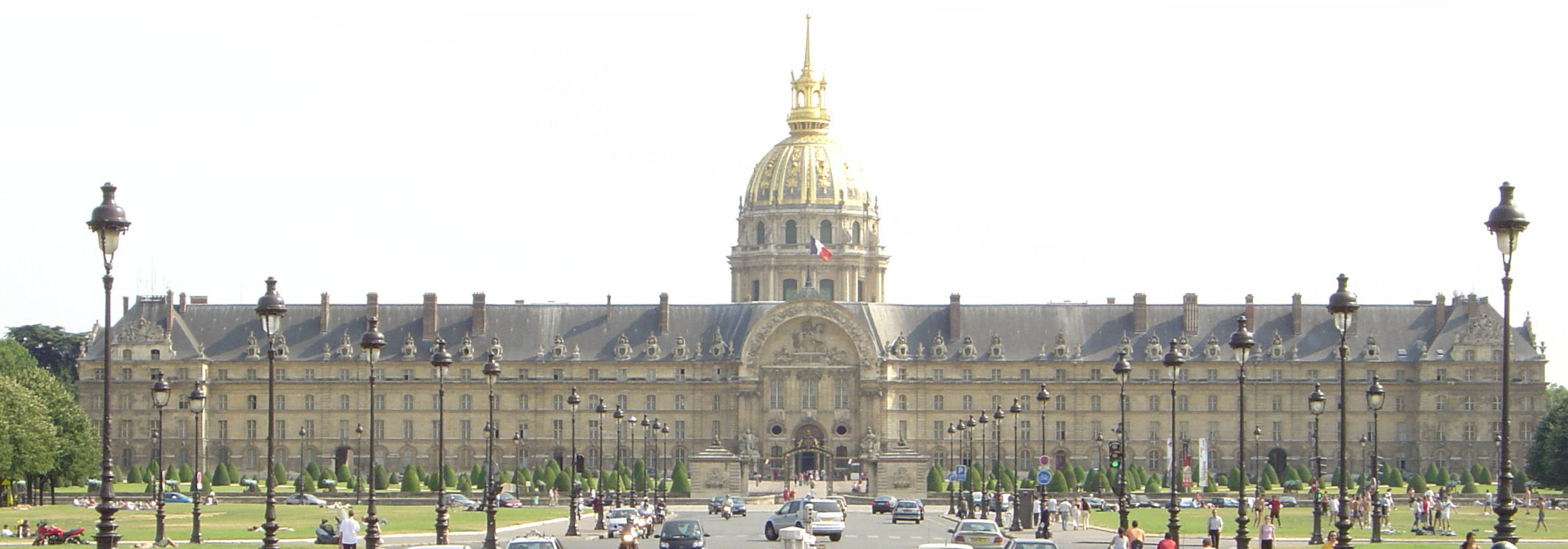 Photo of the front of the Invalides taken from the esplanade.